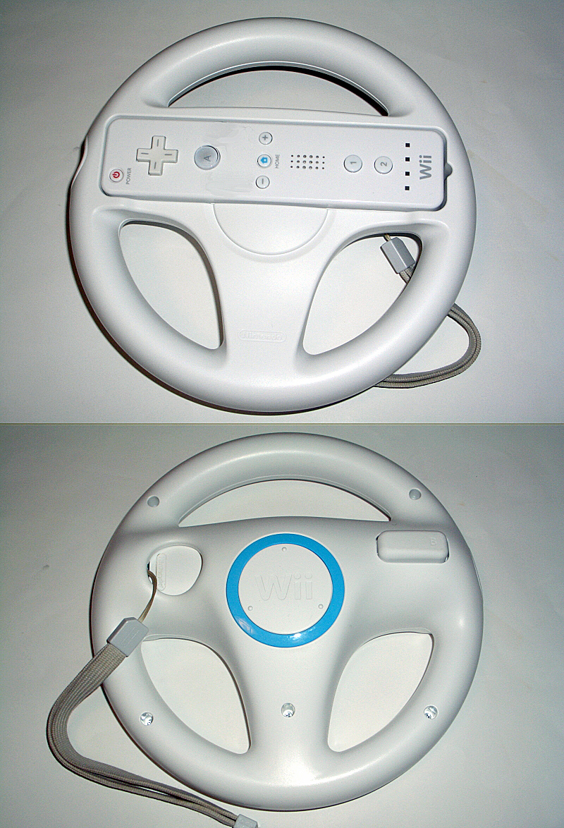 WiiWheel game controller for Nintendo Wii.